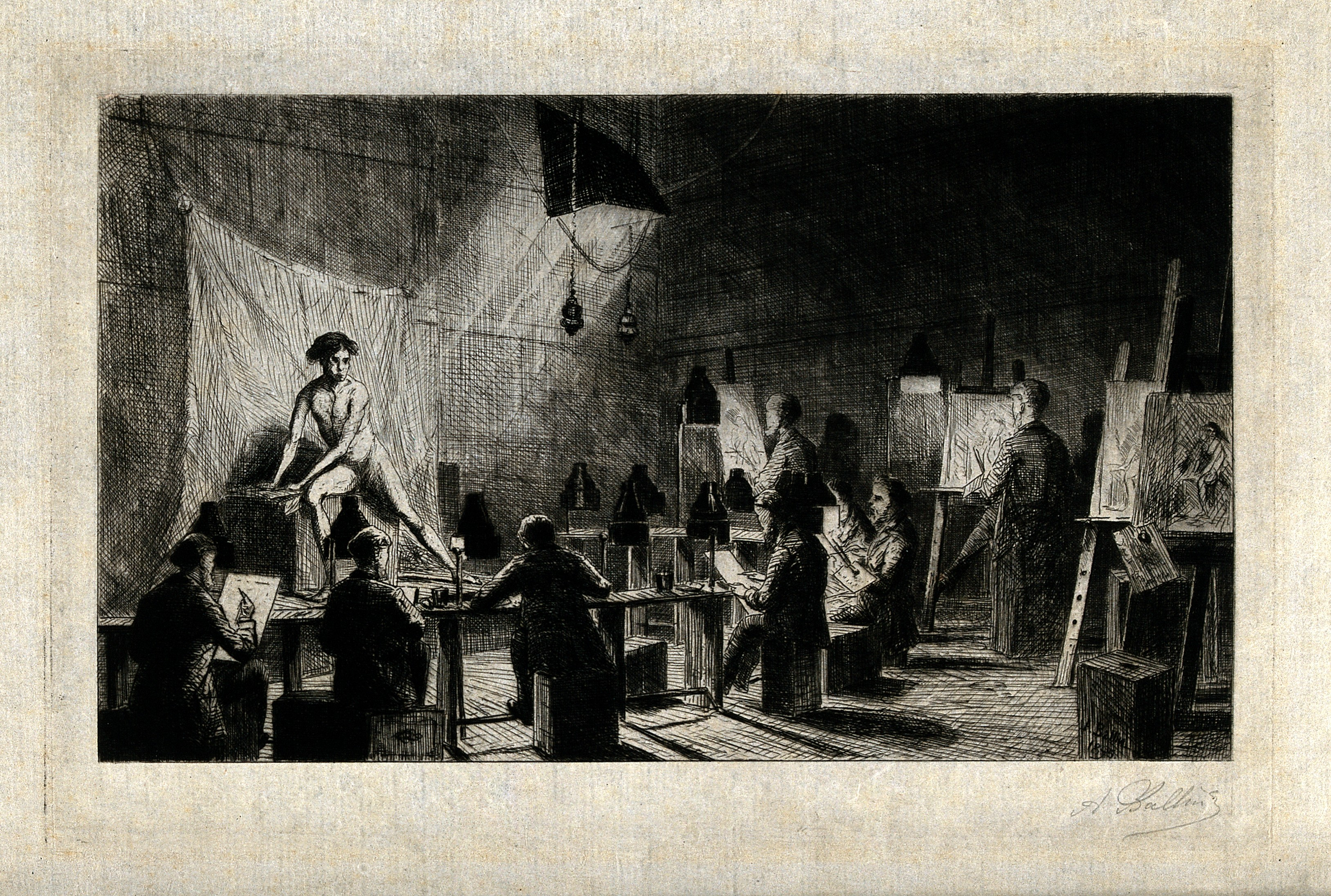 A male nude model being drawn by a life drawing class by lamplight. Etching by A. Ballin, 1875. Iconographic Collections Keywords: Auguste Ballin